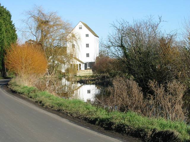 photograph of Ickham mill